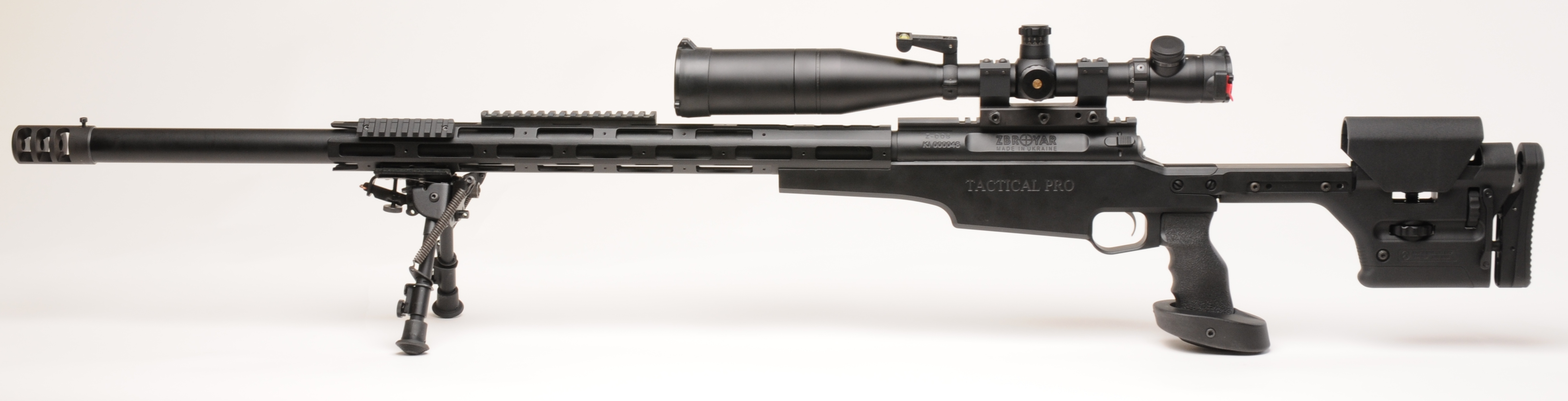 Tactic Pro